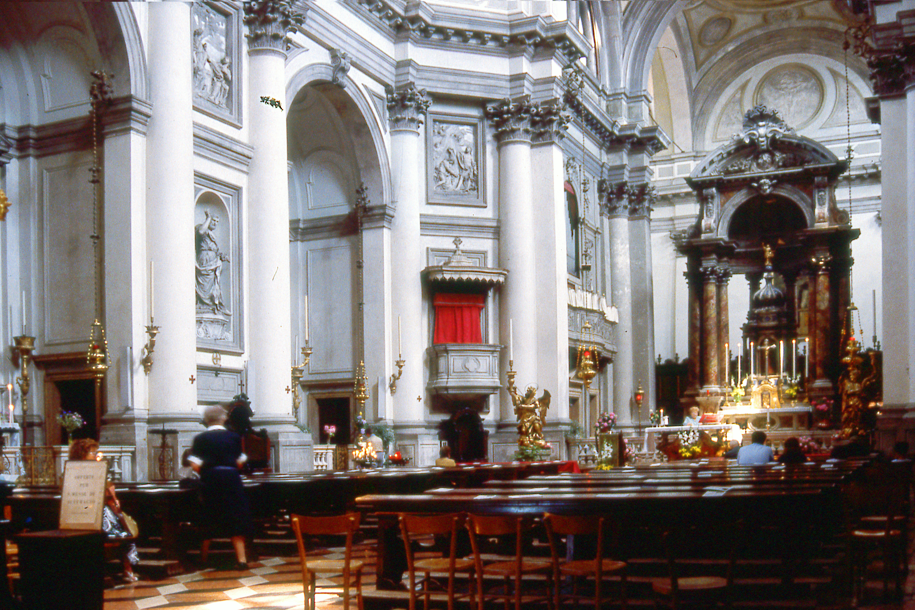 View of the interior of the Dominican church of Santa Maria del Rosario (commonly known as I Gesuati) on the Zattere in Venice, designed by Giorgio Massari in the early 18th century